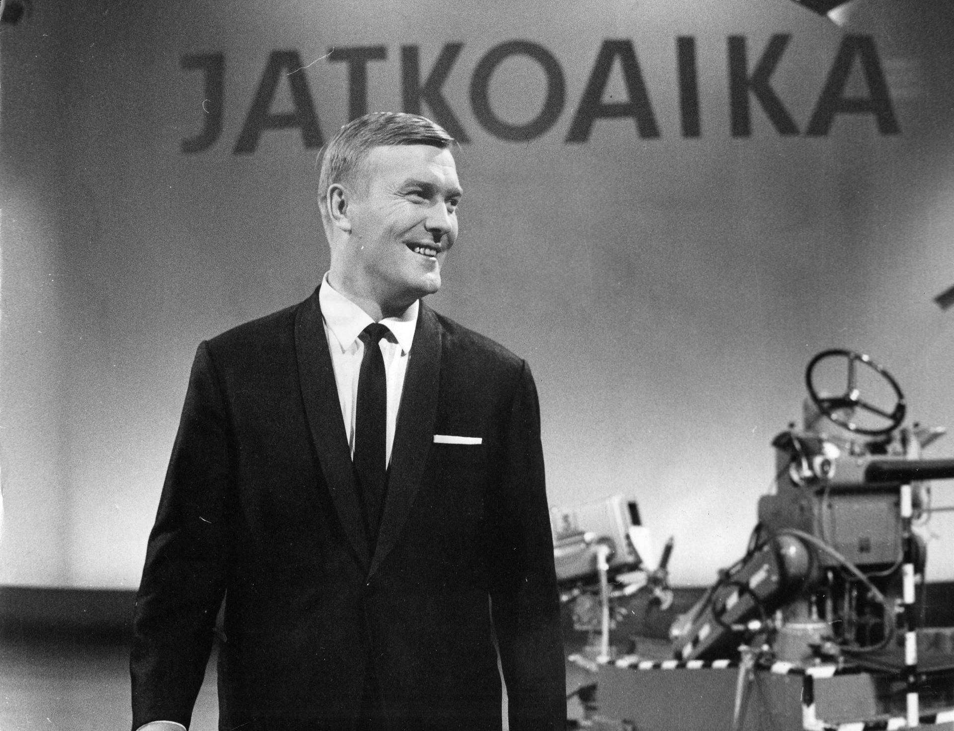 Photograph of the Finnish producer Aarre Elo (1934–) on the set of Jatkoaika TV show.